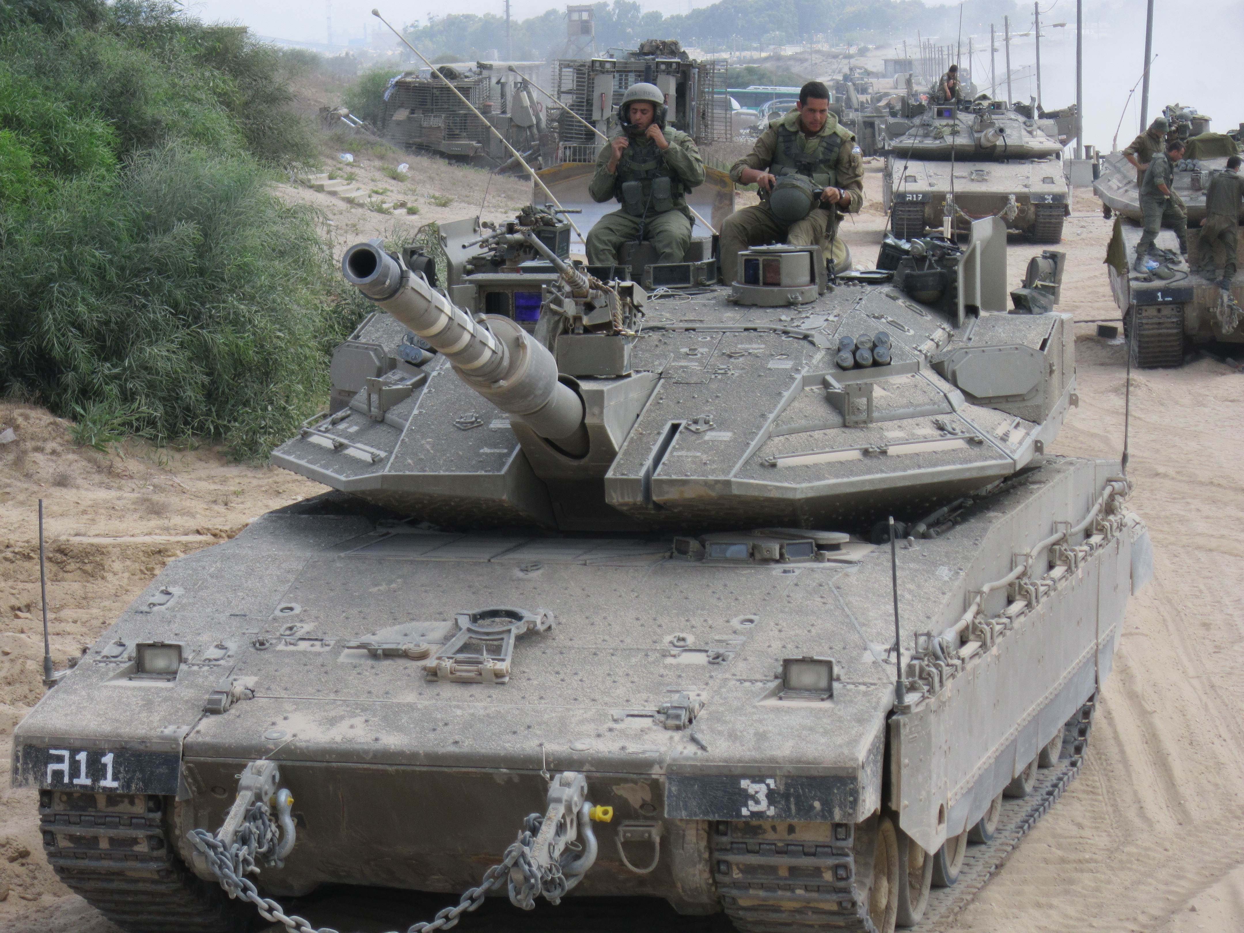 The 401 armored Brigade operates near the Gaza border,27/7/2014.